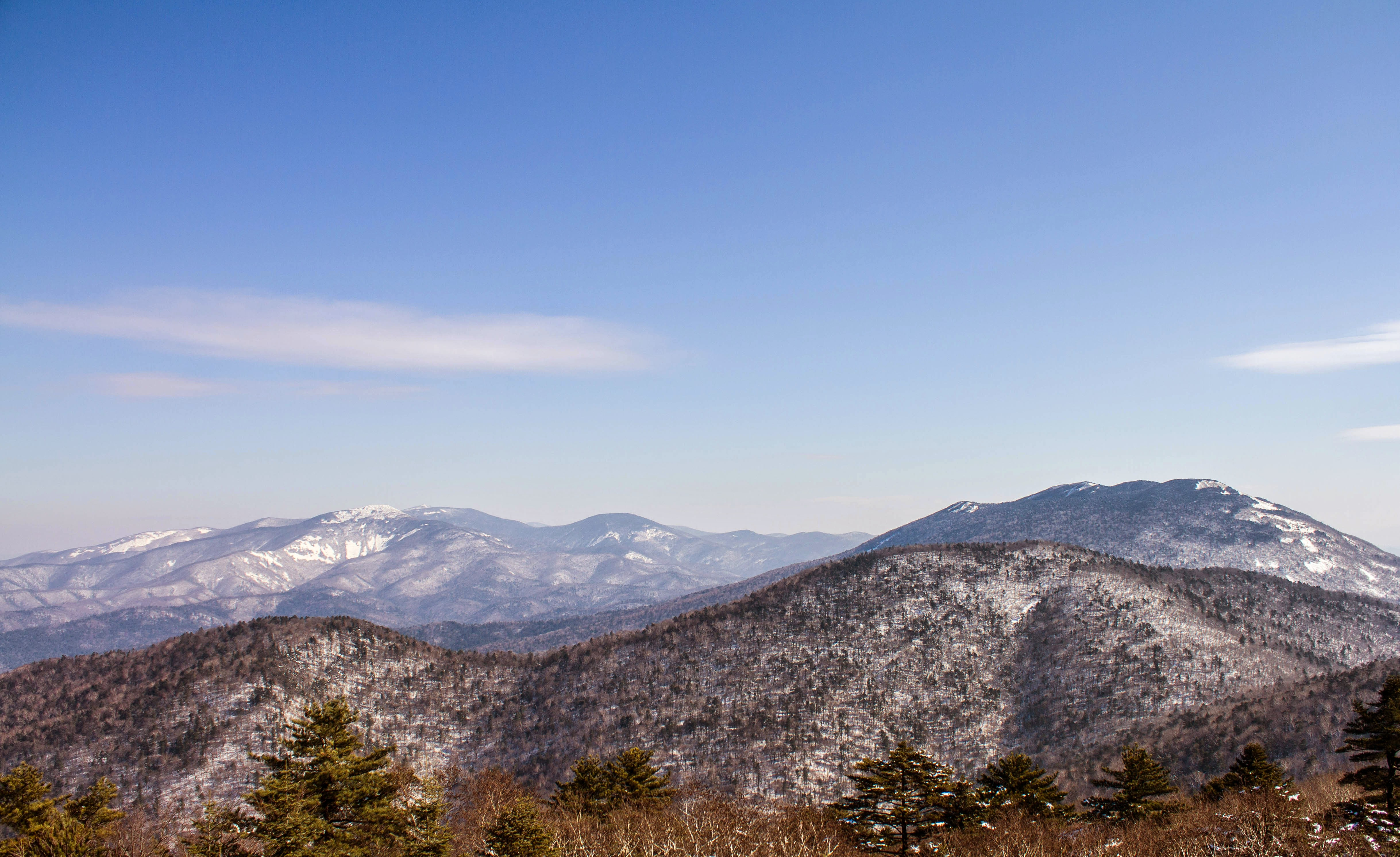 View from Krynichnaya to Gorbush, Bald's grandfather and Pidan